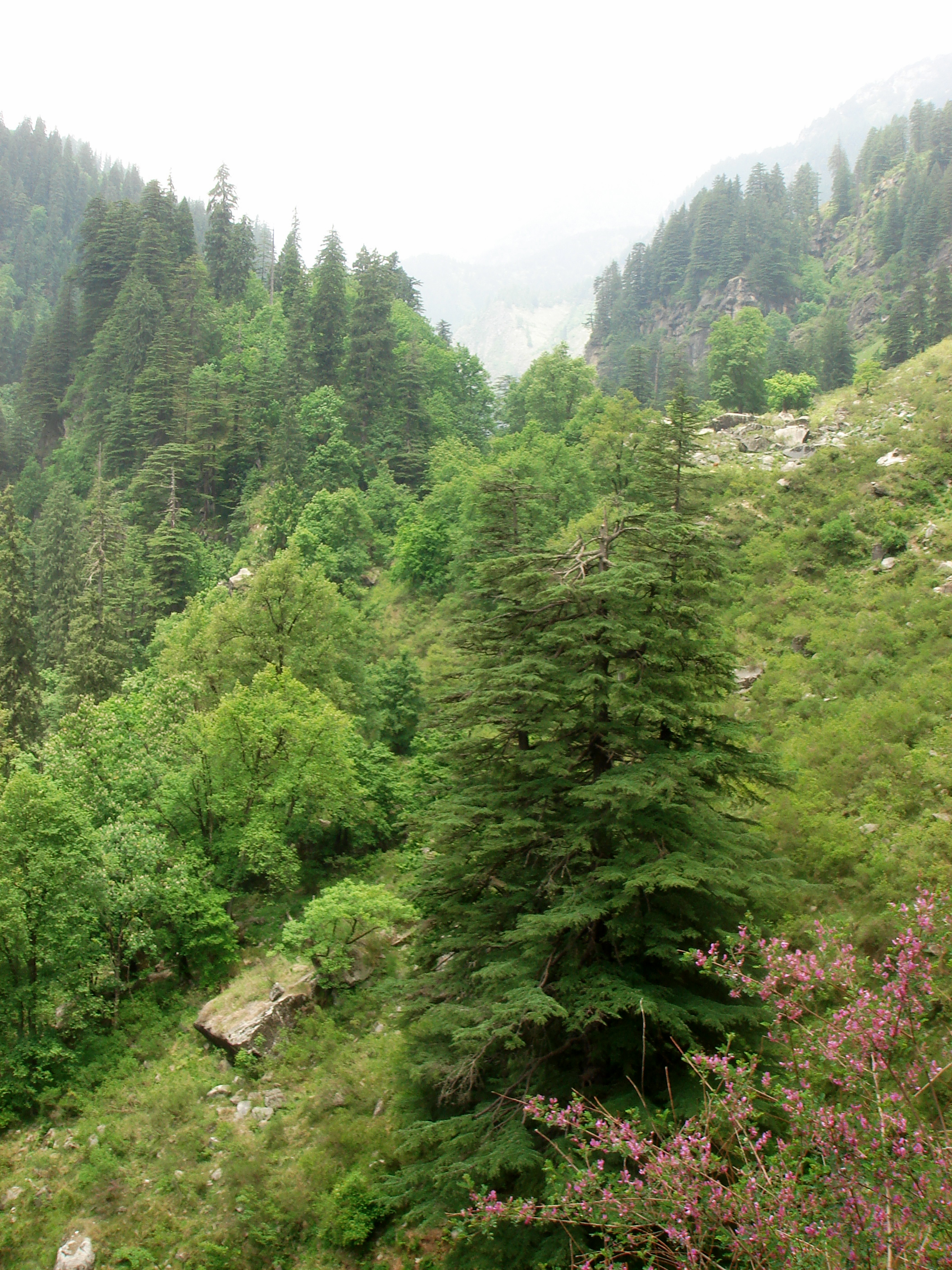 Mixed natural forest dominated by Cedrus deodara, Manali Wildlife Sanctuary, Himachal Pradesh, India; 2500m altitude.